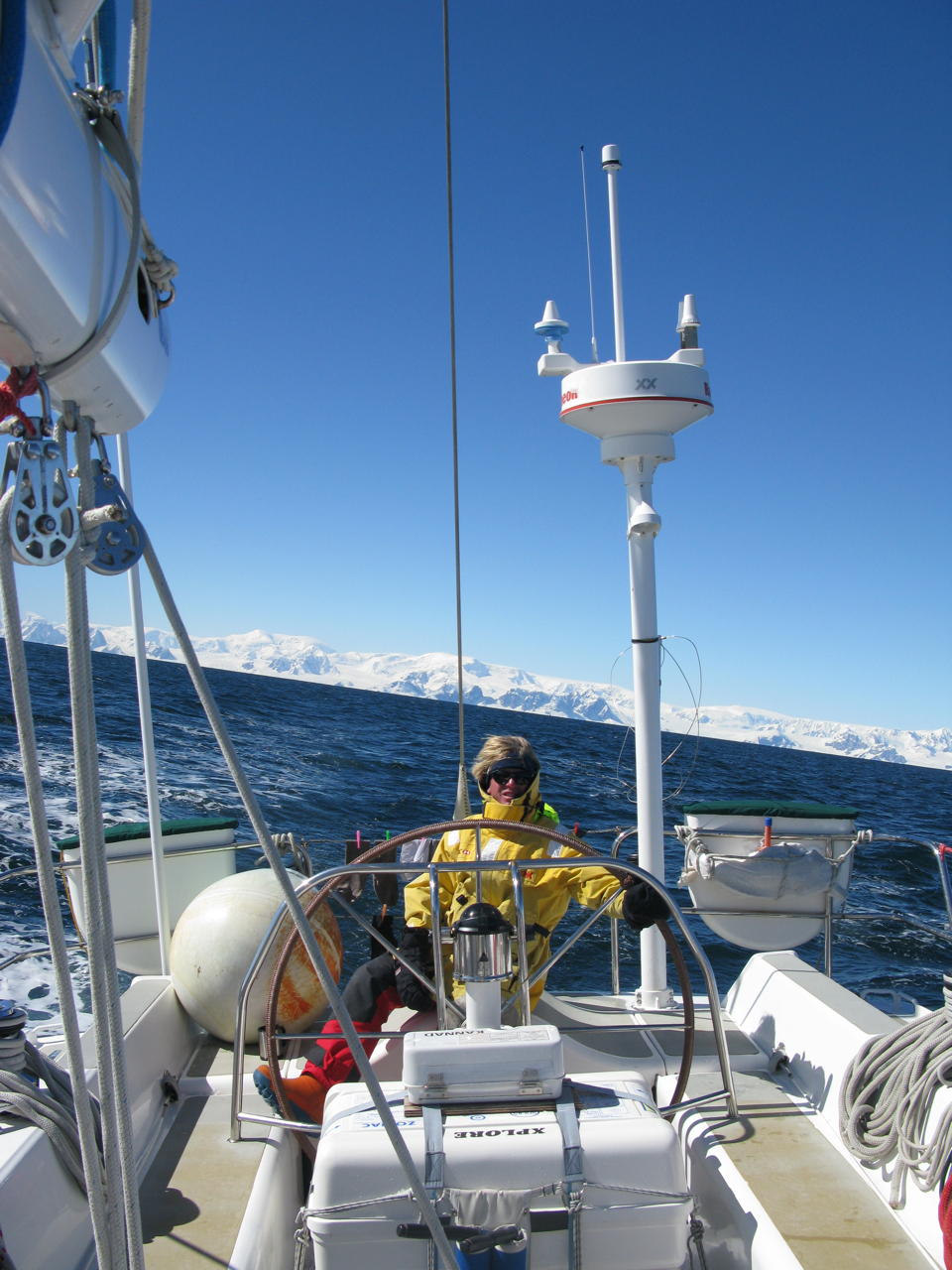 Challenge 67 and the skipper Stephen Wilkins (BT Global Challenge 2000/2001)